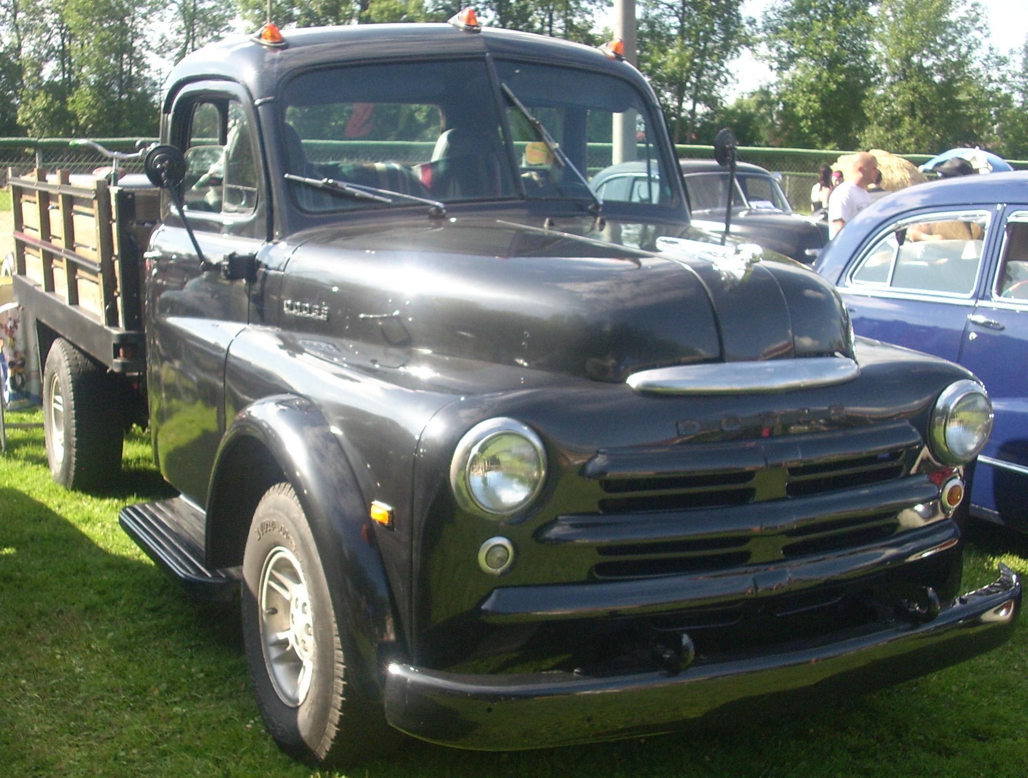 Dodge pickup photographed at the Rassemblement Rigaud Car Show.